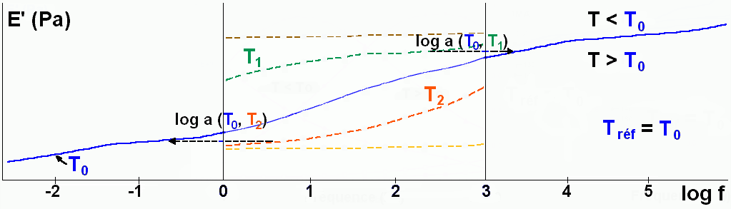 Master curve (fictitious) that would be obtained from a double frequency/temperature sweep test on a viscoelastic property (for example storage modulus E’). Application of the time–temperature superposition principle.